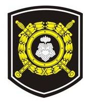 Chevron of the Management of non-departmental guard Ministry of Internal Affairs (Russia), from 1993 to the year 2012